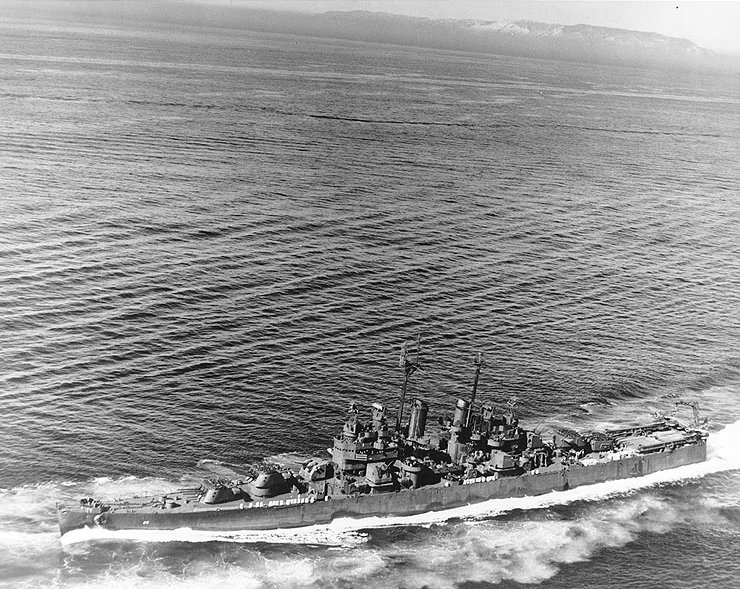 USS Santa Fe (CL-60) underway off the U.S. West Coast on 13 January 1944, the day she sailed to take part in the Marshalls operation.